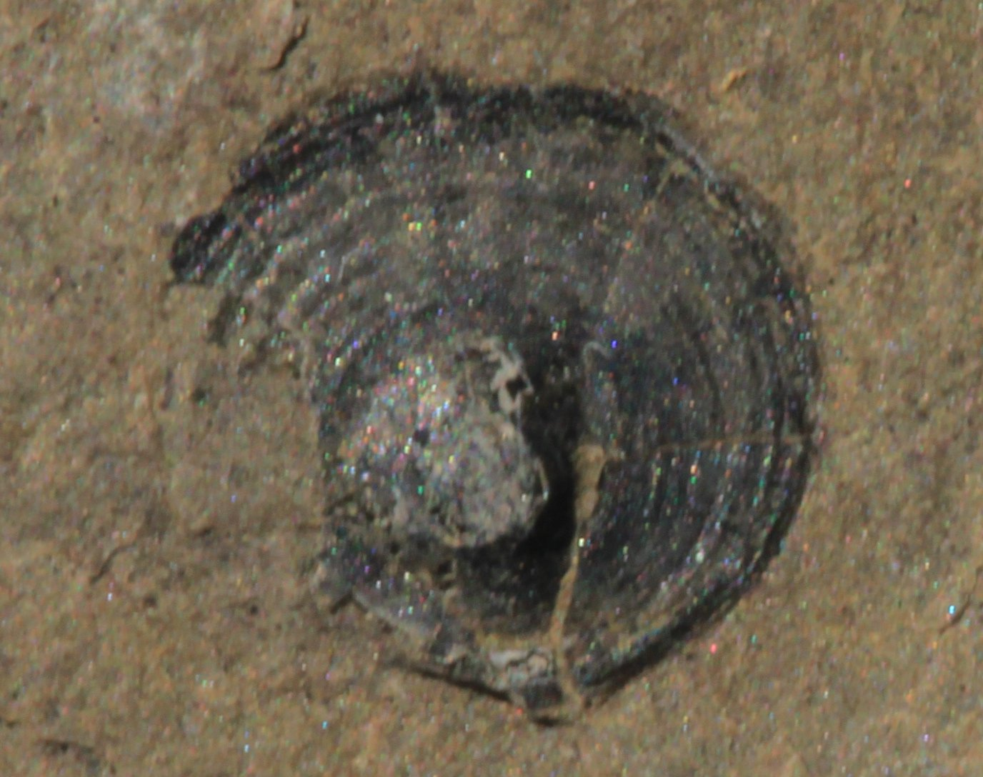 An Acrothele colleni lampshell, Order Lingulida, Family Acrothelidae, 6mm measured along the axis, colleted from the Spence Shale near Brigham, Utah, USA, from the Middle Cambrian